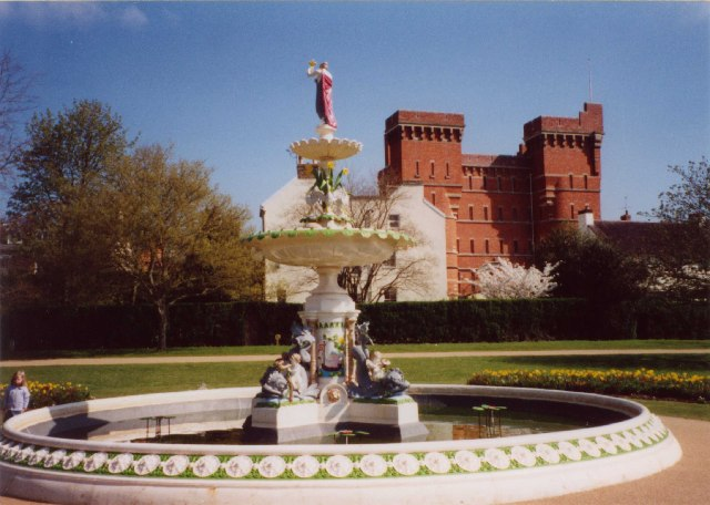 Vivary Park, Taunton. This elaborate fountain is in the centre of the park. The fort-like building in the background is the barracks.